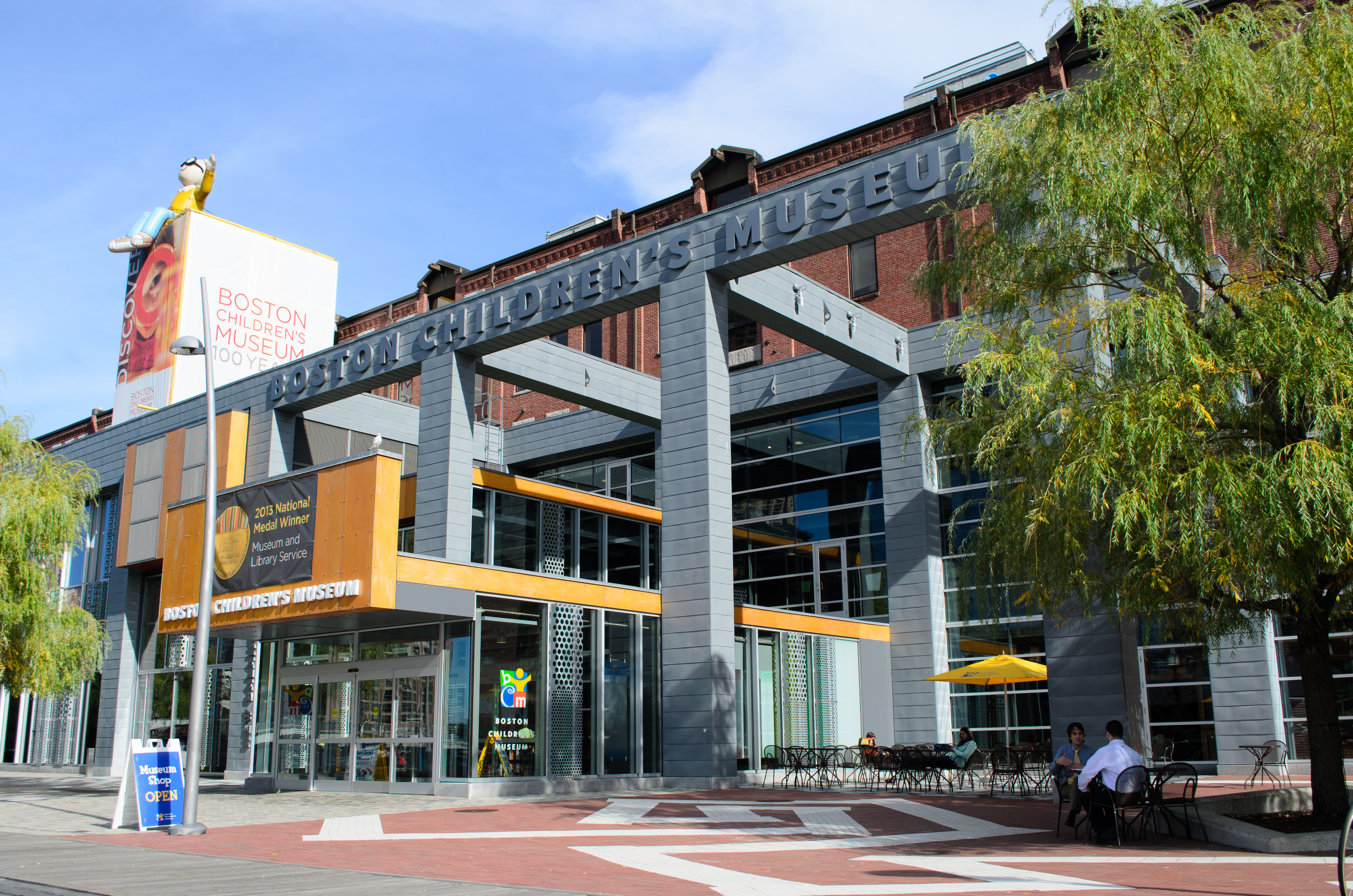 The Boston Children's Museum in the Seaport District of Boston, Massachusetts.